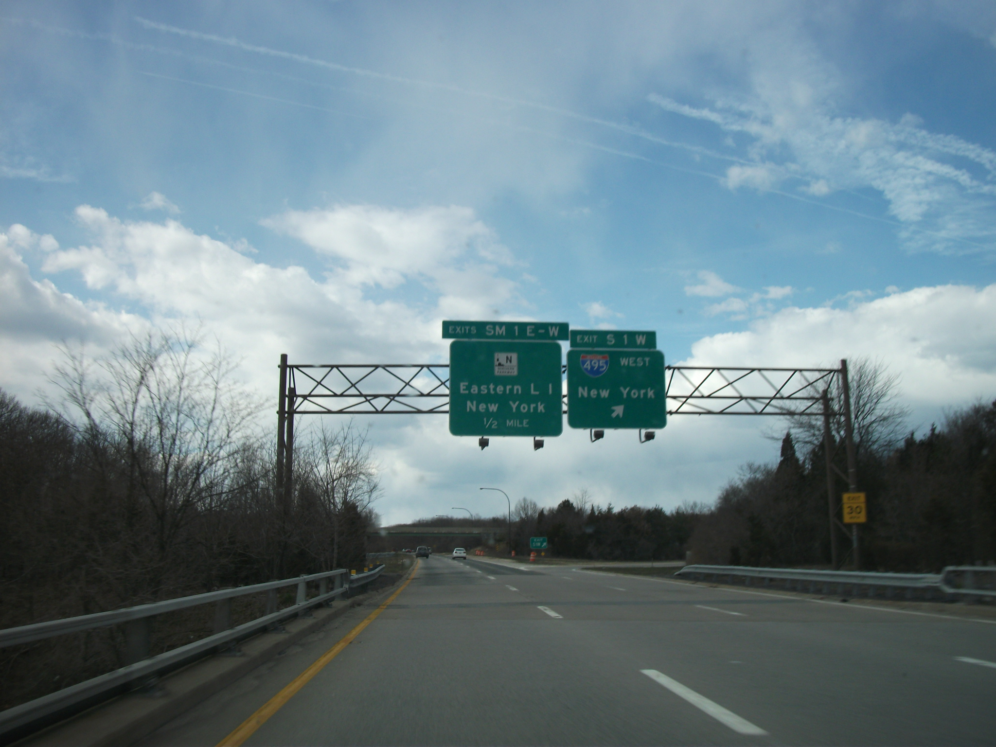 The Sagtikos State Parkway northbound at the ramps for Exit S1W, approaching the changeover to the Sunken Meadow State Parkway.